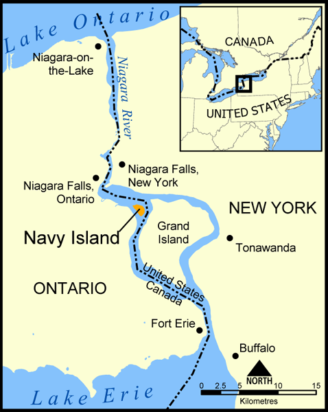 A map showing the location of Navy Island in the Niagara River. The nearby Grand Island is also shown, as are the towns of Niagara Falls, Niagara-on-the-Lake, Tonawanda, Buffalo, and Fort Erie. Created by NormanEinstein, May 11, 2005.